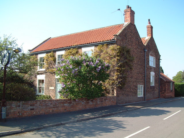 Manor House. Manor House, Graiselound with Graiselound Fields Road in the foreground.